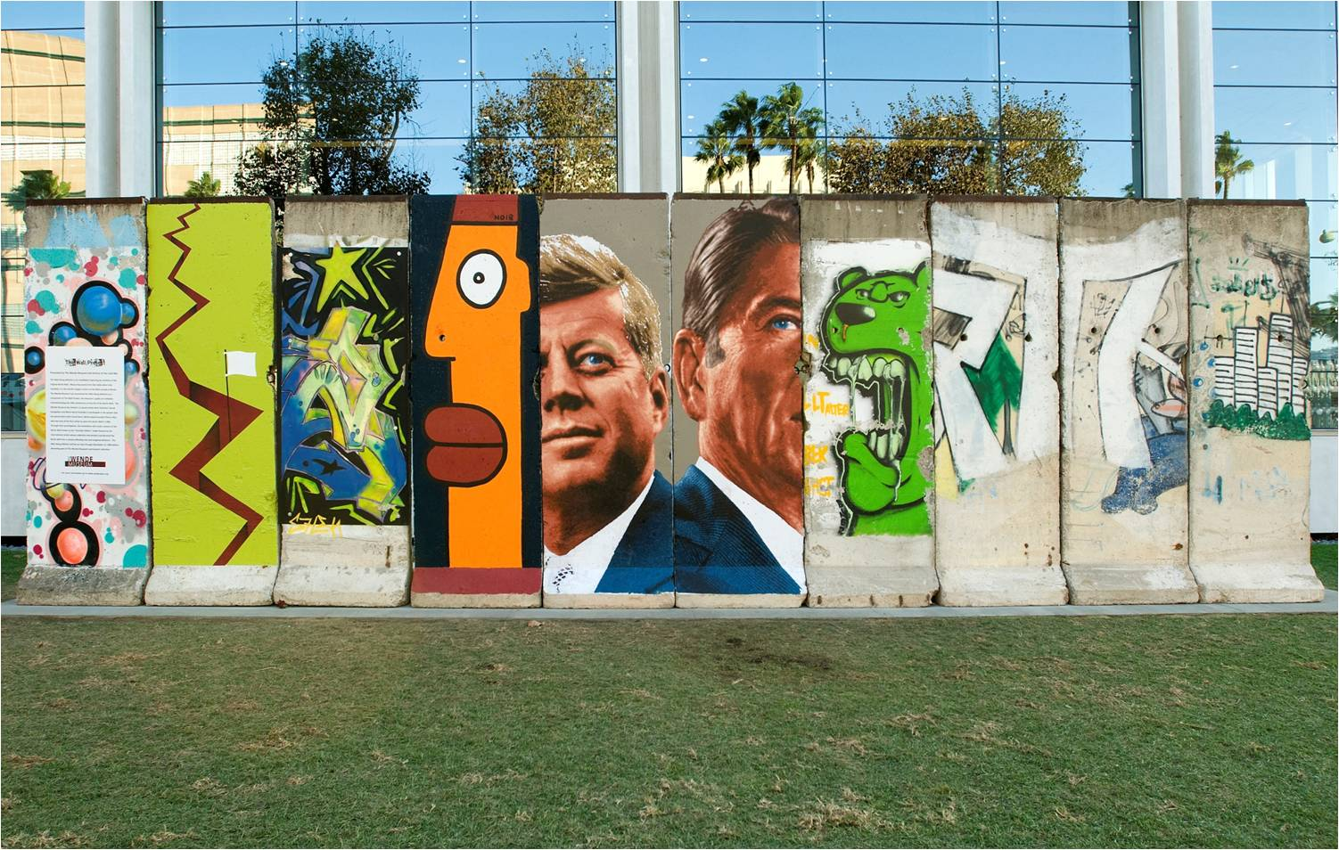 Ten fragments of the original Berlin Wall located on the 5900 Wilshire Bulevard, Los Angeles, California.